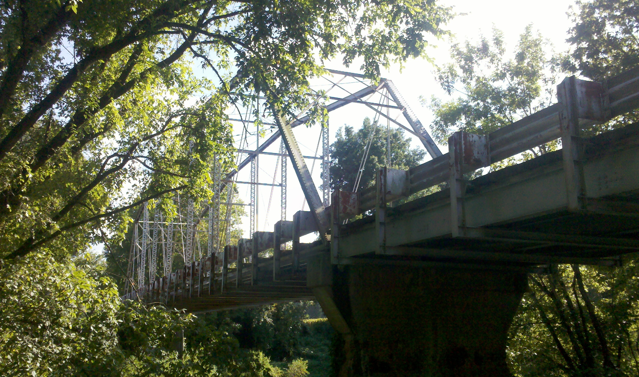 Deep River Camelback Bridge (North Carolina), from South Side